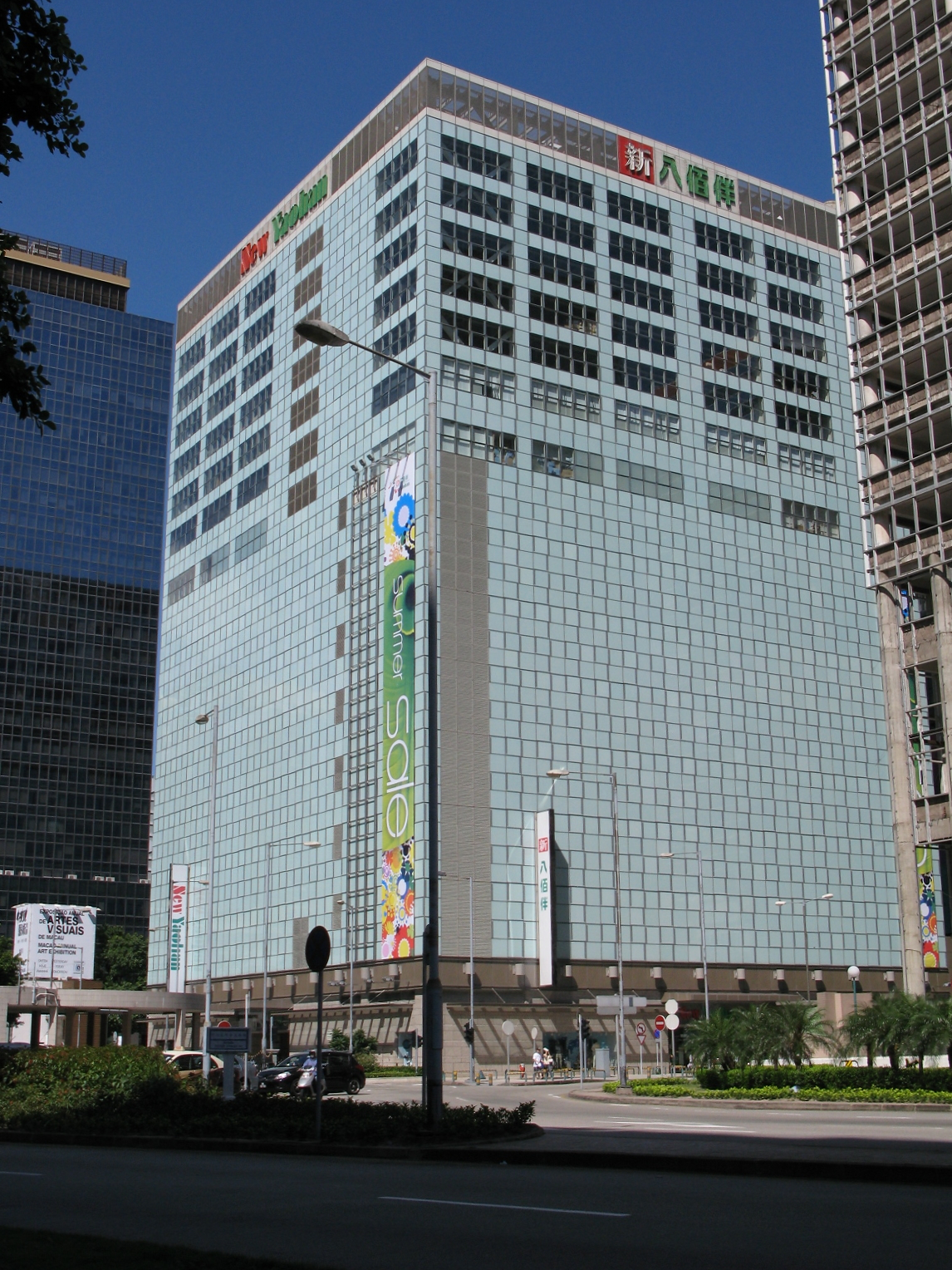 New Yaohan Building 新八佰伴大樓